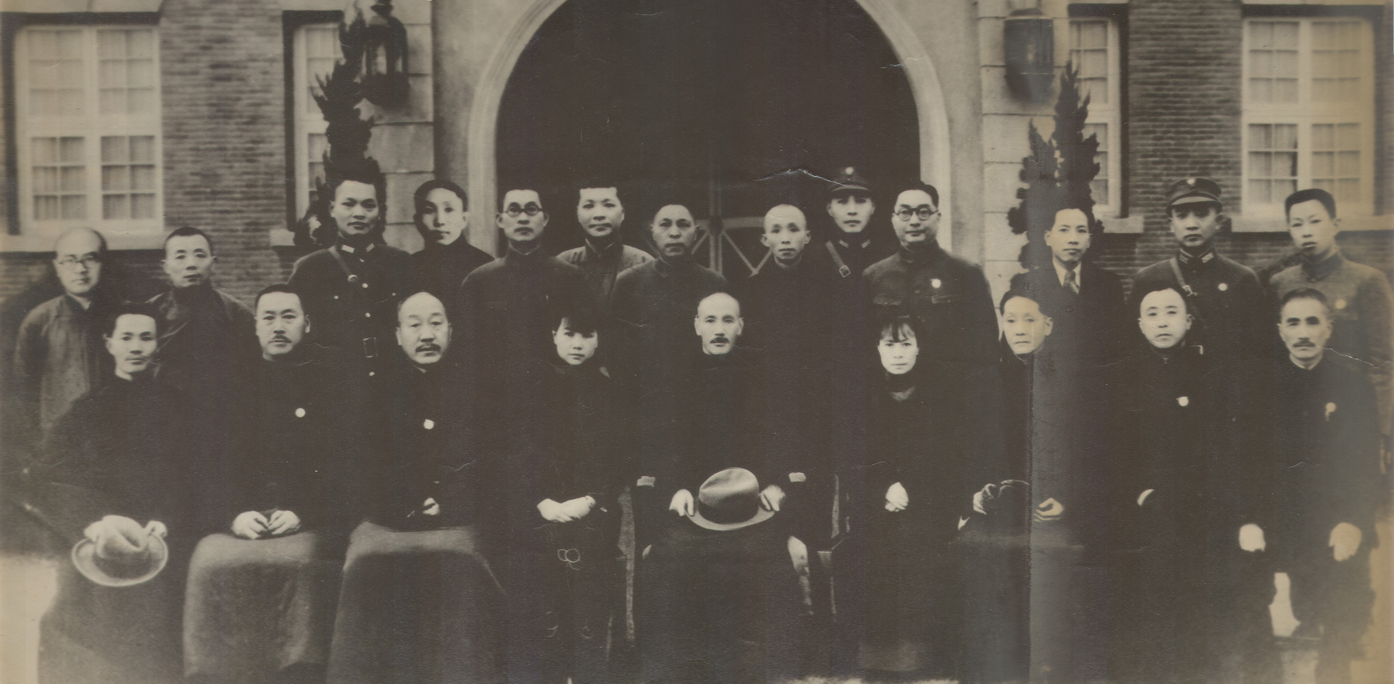 Photo of the high-ranking officials in the Kuomintang at the time of the Xi'an Incident.